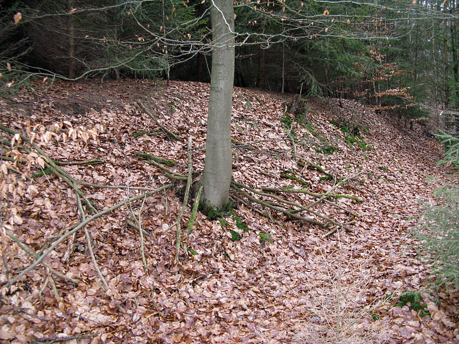 Wall Parchimer Landwehr near Kiekindemark, Parchim, Mecklenburg-Vorpommern, Germany